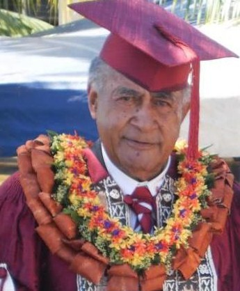 Cropped pic of Mr Epeli Nailatikau at the 2012 University of the South Pacific Graduation ceremony.